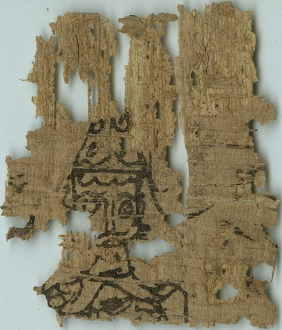 Papyrus Oxyrhynchus 2653 - Menander, Polemon